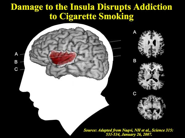 Image of the insula